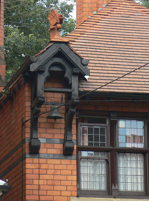 Bell gable at the west end of the Norris Almshouses in Nottingham. Note the terracotta dragon finial.